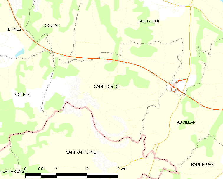 Map of French municipality Saint-Cirice